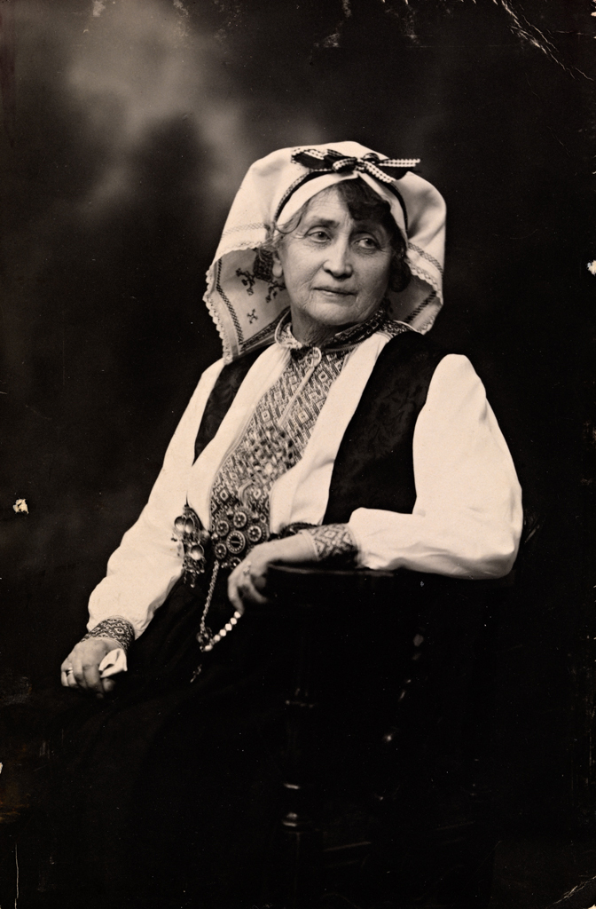 Tittel / Title: Portrett av Hulda Garborg Fotograf / Photographer: Borgens Atelier (Oslo) Eier / Owner Institution: Nasjonalbiblioteket / National Library of Norway Lenke / Link: Bildesignatur / Image Number: blds_03007